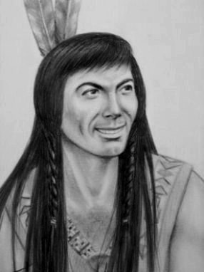 This is my free-hand sketch of Mingo from the Daniel Boone series of the 1960's. I'd like to include this picture into the artile "Ed Ames".